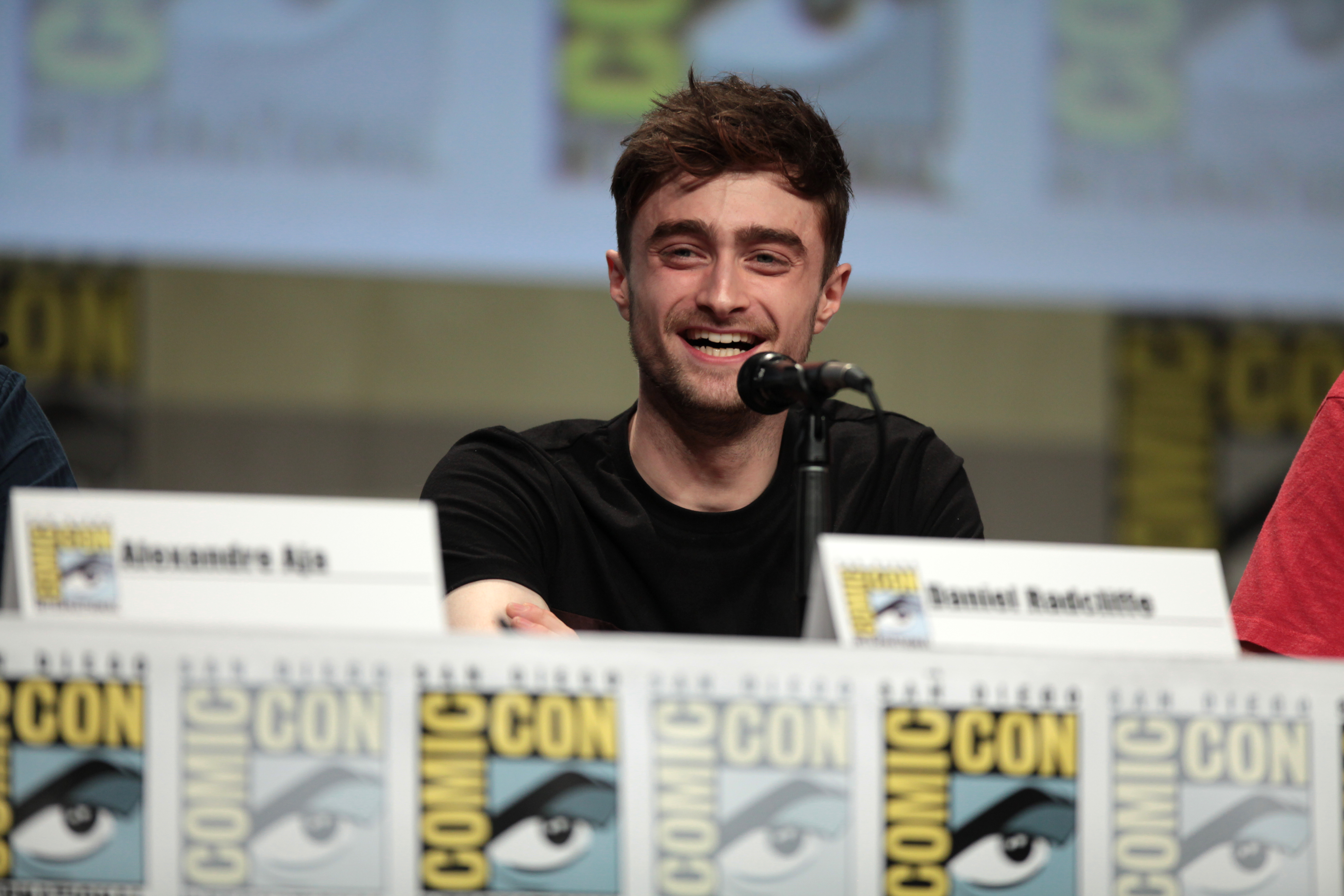 Daniel Radcliffe speaking at the 2014 San Diego Comic Con International, for "Horns", at the San Diego Convention Center in San Diego, California.